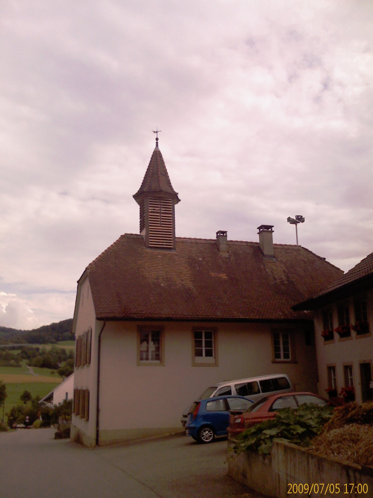 School of Anwil, canton of Basel-Country, SwitzerlandEsperanto: Lernejo de Anwil, Kantono Bazelo Kampara, Svislando